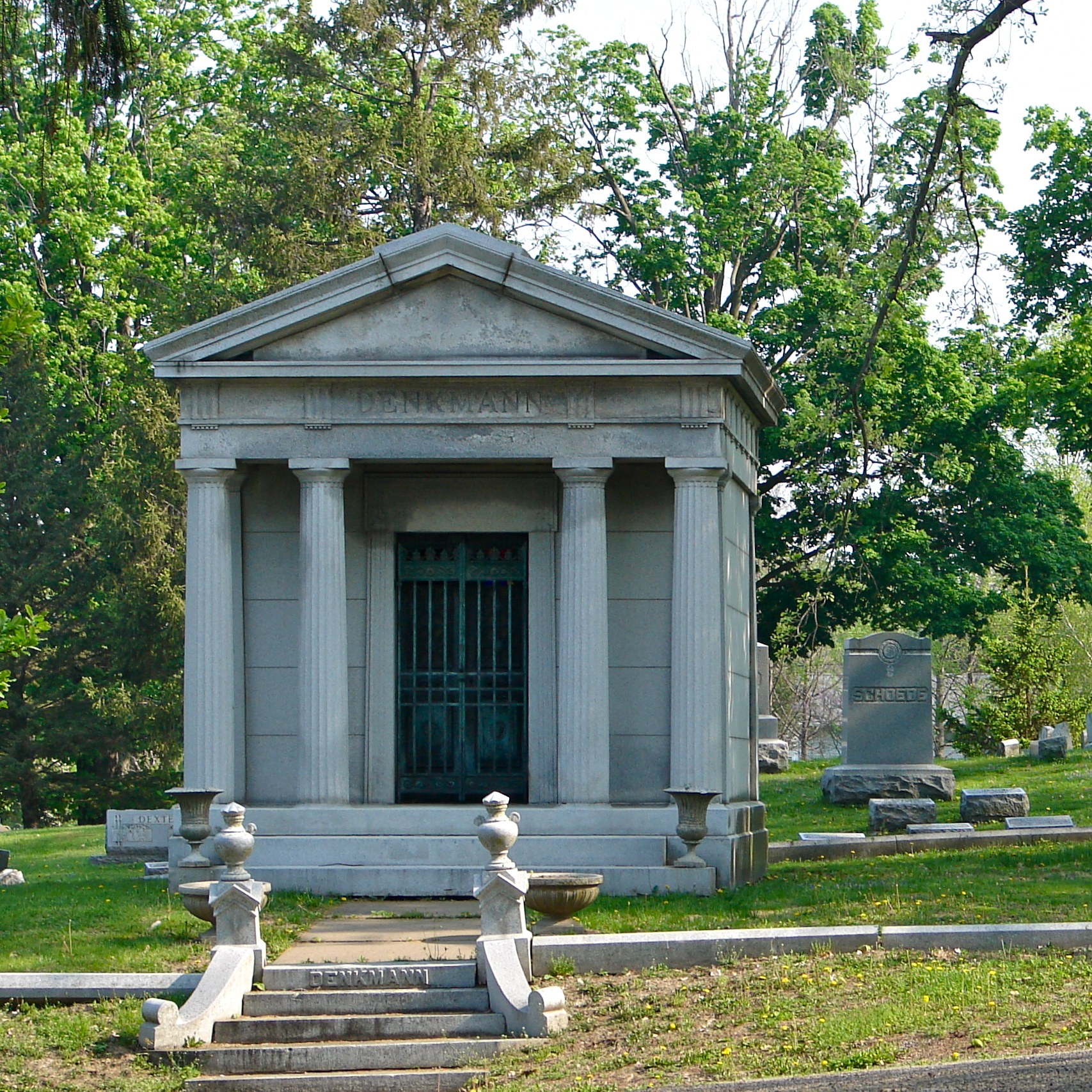 Denkman Masoleum in Chippiannock Cemetery, Rock Island, Rock Island County, Illinois. Cemetery listed on the NRHP since May 6, 1994.2901 Twelfth St., Rock Island. Architect Almerin Hotchkiss patterned his design on the Rural Cemetery style of Mt. Auburn Cemetery in Massachusetts. It contains monuments by Alexander Stirling Calder and Paul de Vigne. A Tiffany window, now recovered, was stolen from this mausoleum.